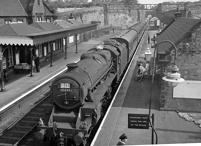 Frodsham Station, with train. View NE, towards Warrington and Manchester, also Runcorn and Liverpool; ex-Birkenhead Joint (London & North Western & Great Western), (Manchester) - Warrington - Chester main line, junction of LNW loop to Runcorn connecting there with Crewe - Liverpool line. The train is the 10.31 Manchester Exchange to Bangor, headed by Stanier Class 5 4-6-0 No. 45044.